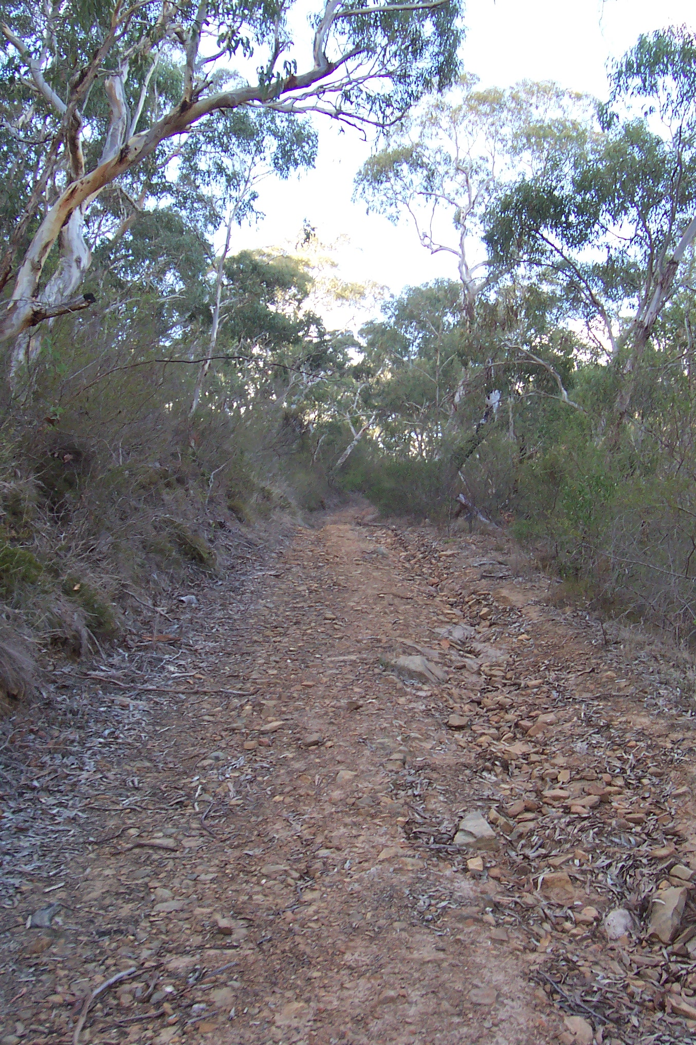 Track in Finniss Conservation Park, South Australia